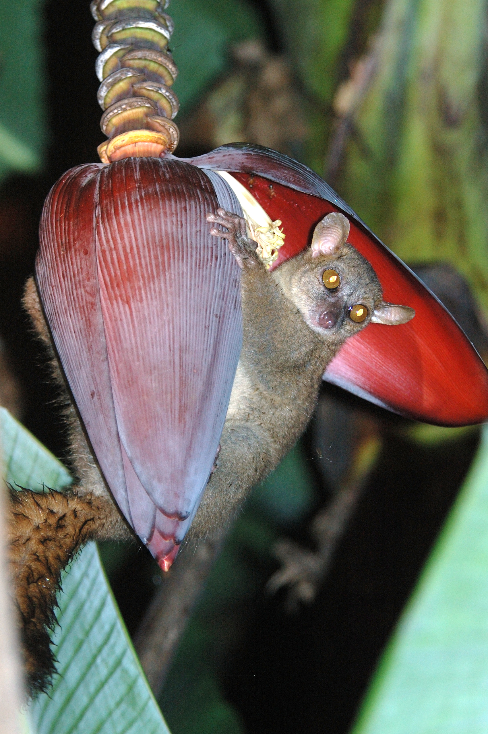 Mirza zaza, the newly described species of giant mouse lemur, old banana plantation behind Benavony, Madagascar, April 2006